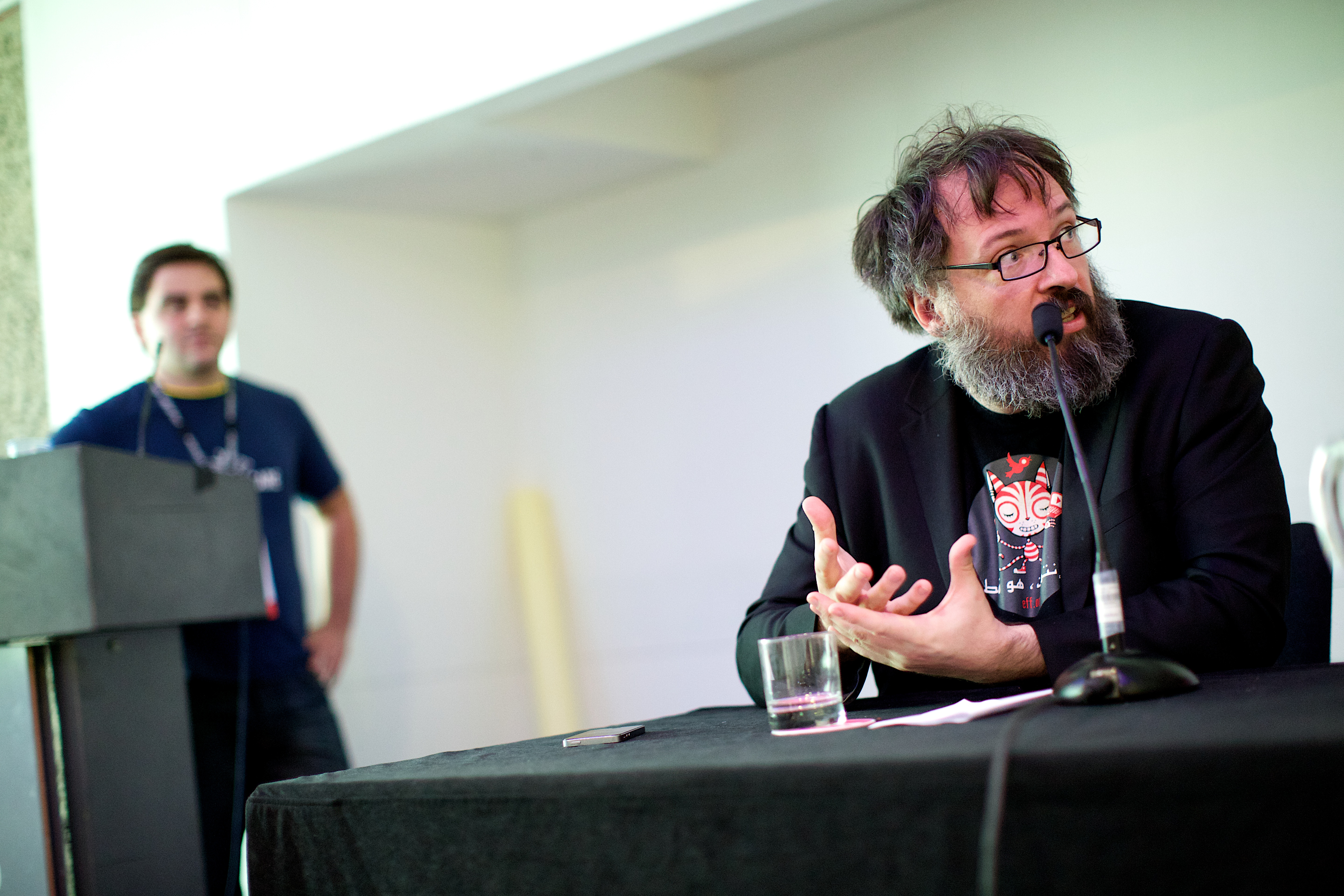 Wikimania 2014 at the Barbican in London